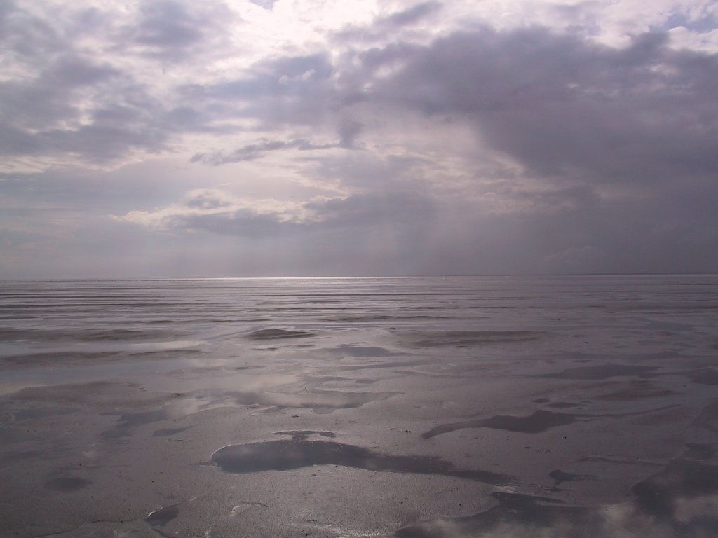 Waddenzee after the rain